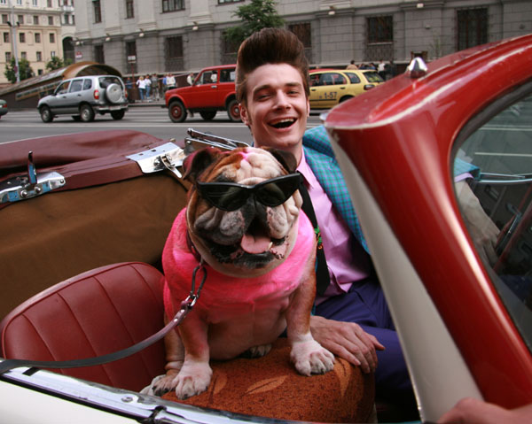 Production of "Stilyagi" by Valery Todorovsky. Minsk. 22 June 2007